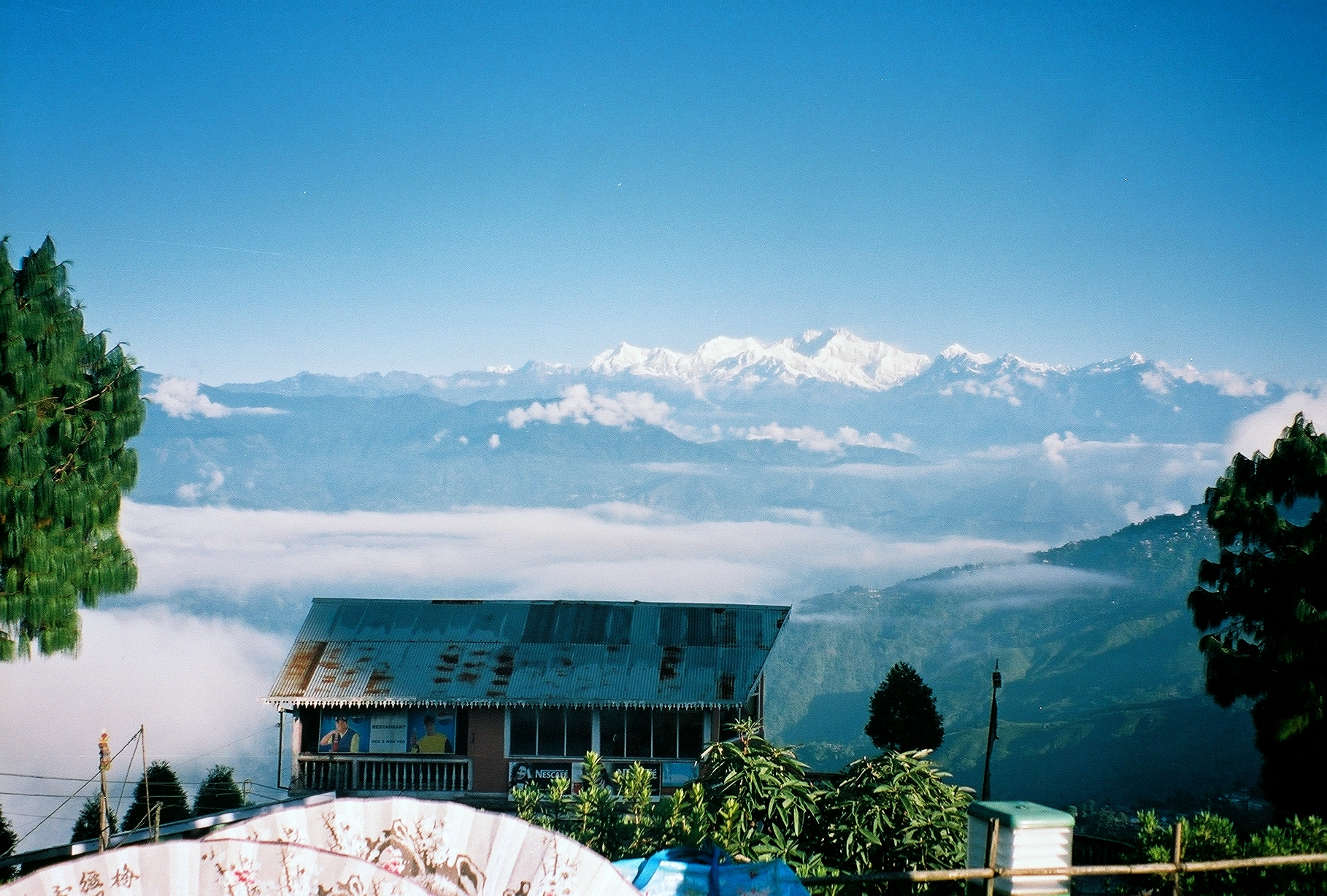 Kangchenjunga as seen from Darjeeling War Memorial on a clear day in October